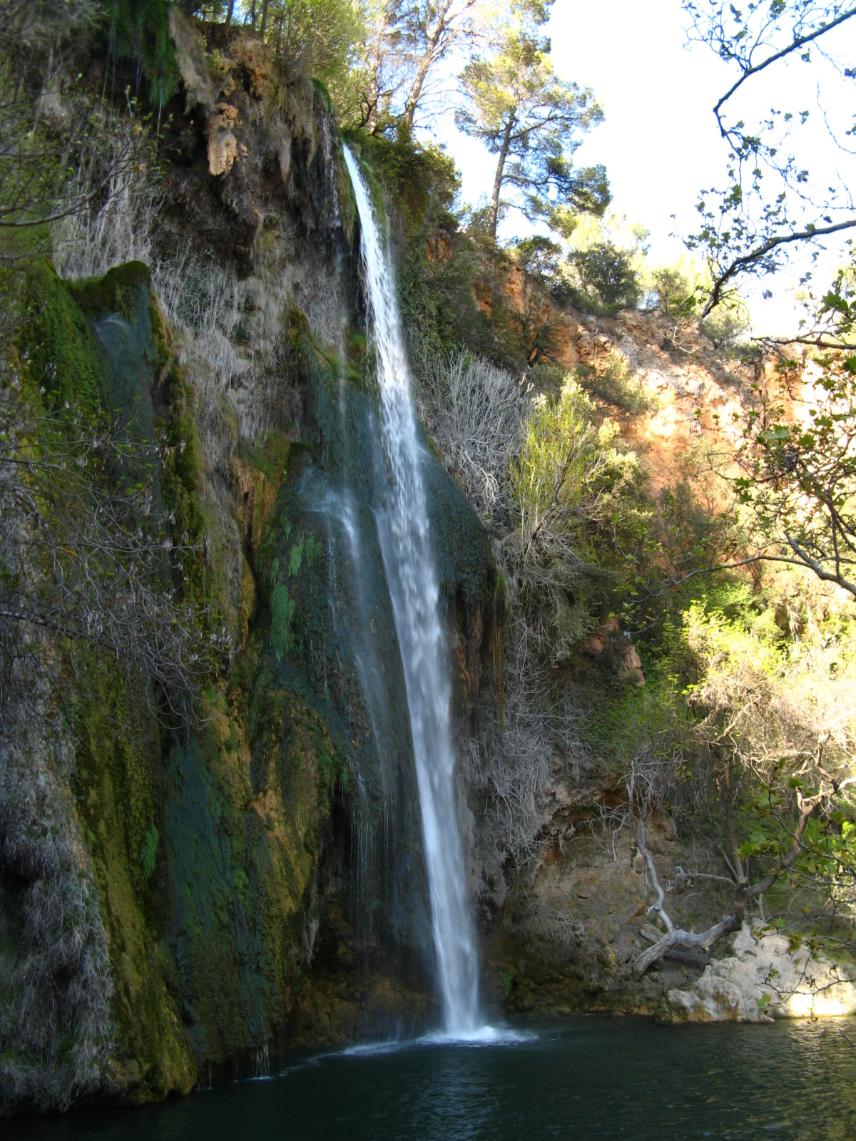 The waterfall in Sillans-la-Cascade (Var, France)